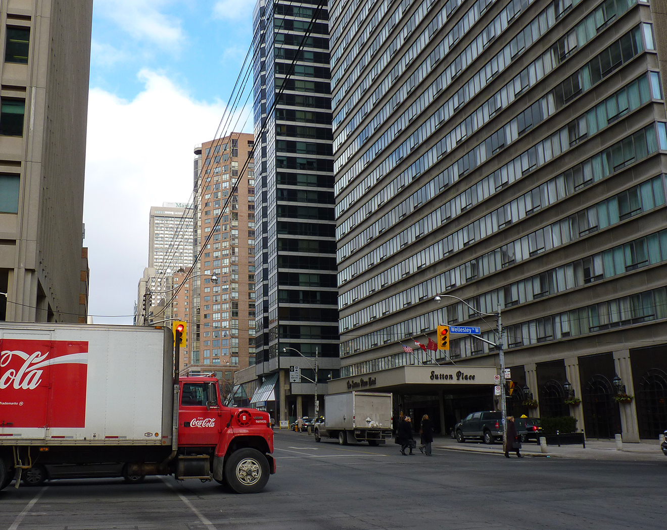 Coca-Cola delivery truck at Wellesley crossing Bay Street. Toronto, Canada - January 2010